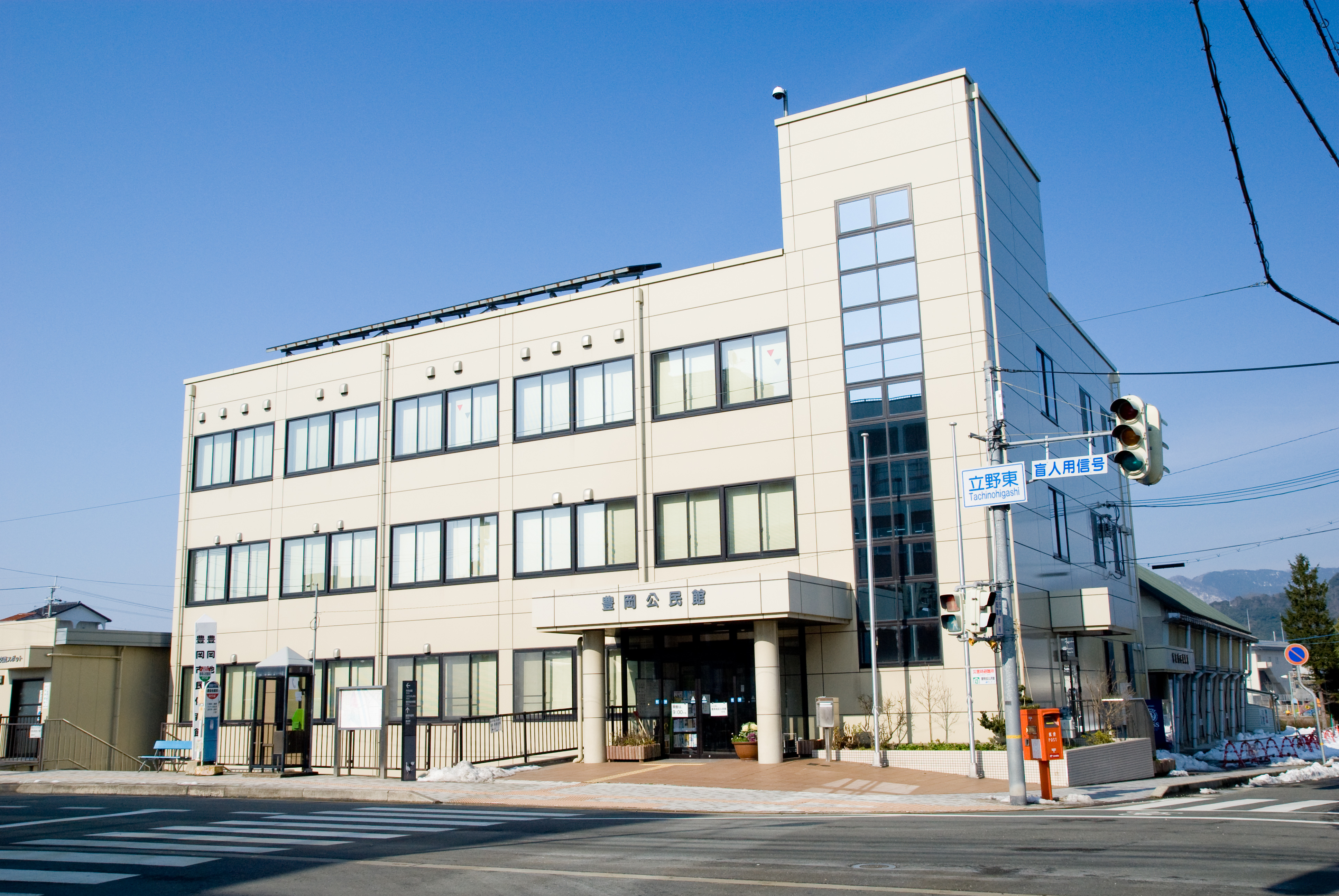 Toyooka public_hall.